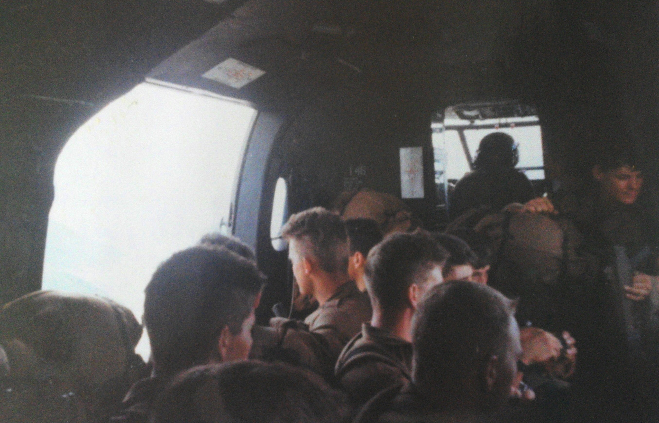 8 SAI COIN operations northern KZN 1993